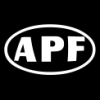 Recreation of the APF logo. The original logo may be different. Any original logos around the time: APF Television Production, APF Productions, AP Film Video, AP Films Produtora (filial Brazil)